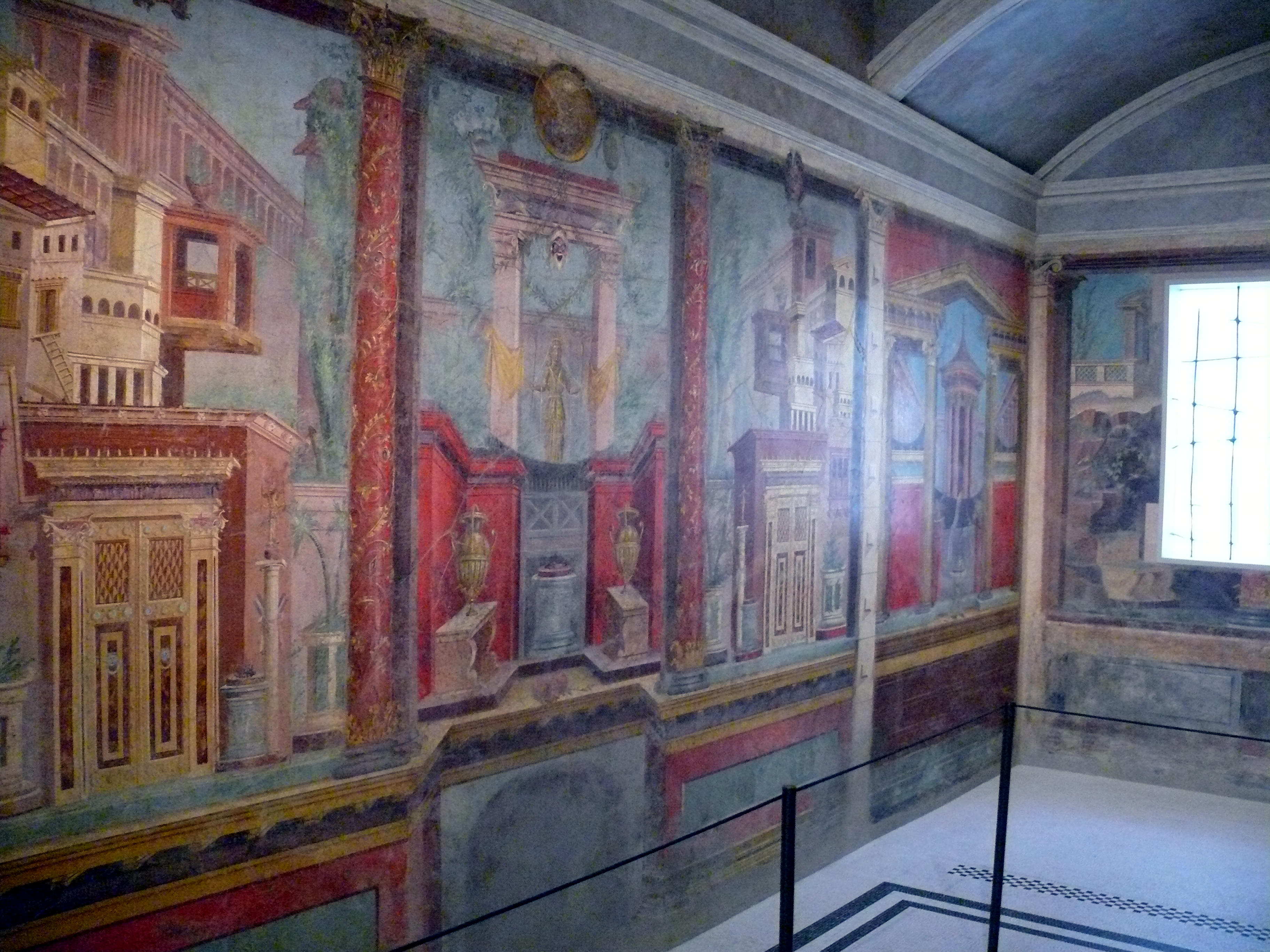 Cubiculum (bedroom) from the Villa of P. Fannius Synistor at Boscoreale. Fresco Roman Republican period Date: ca. 50–40 B.C. Credit Line: Rogers Fund, 1903 Accession Number: 03.14.13a–g